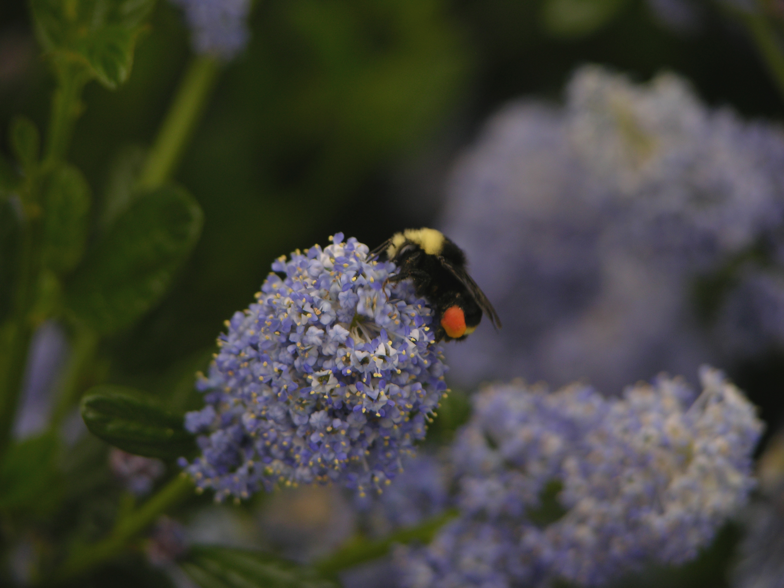 Bombus caliginosus, carrying a lot of pollen (the orange bit).